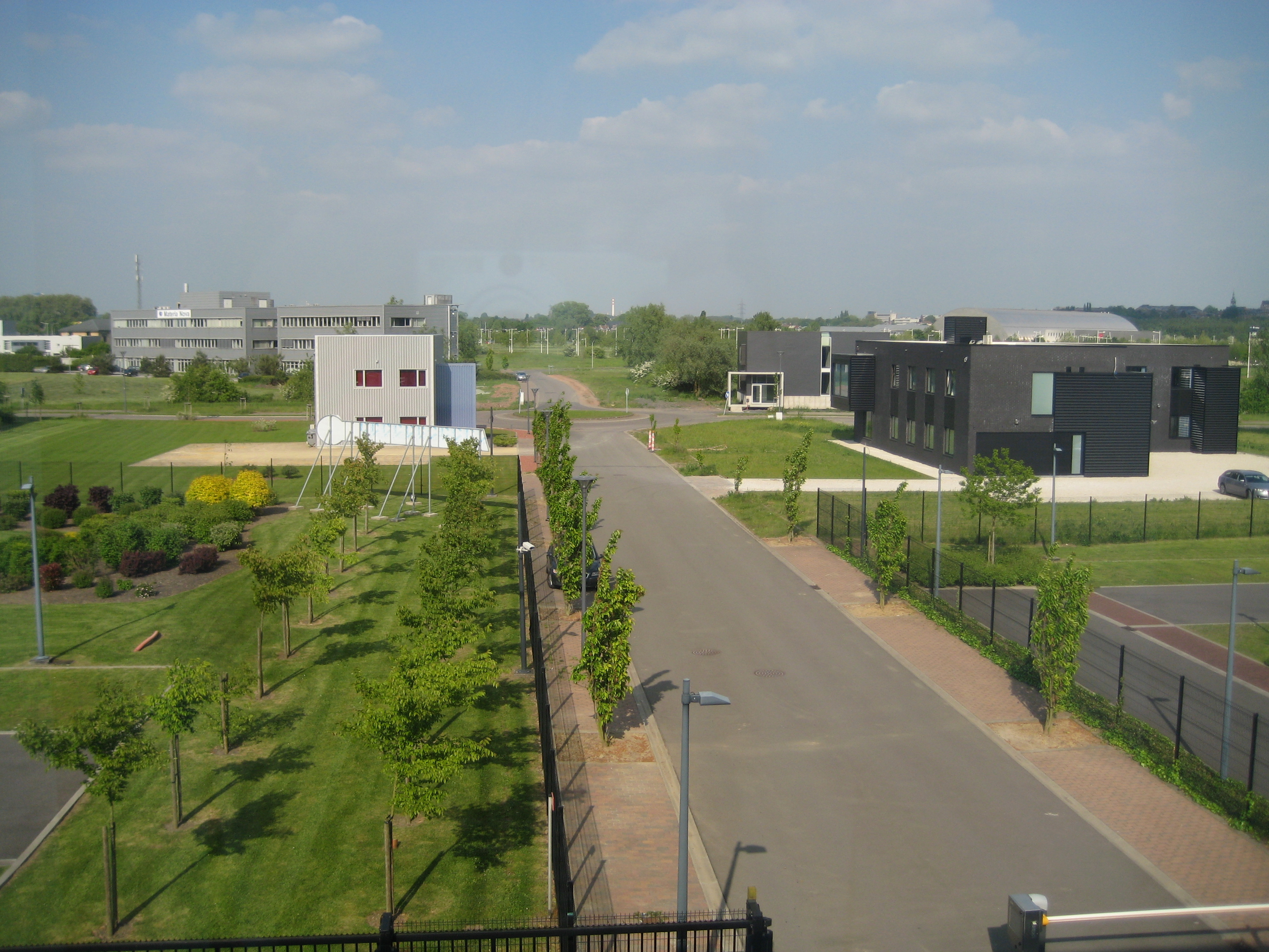 Parc Initialis, Mons, Belgium